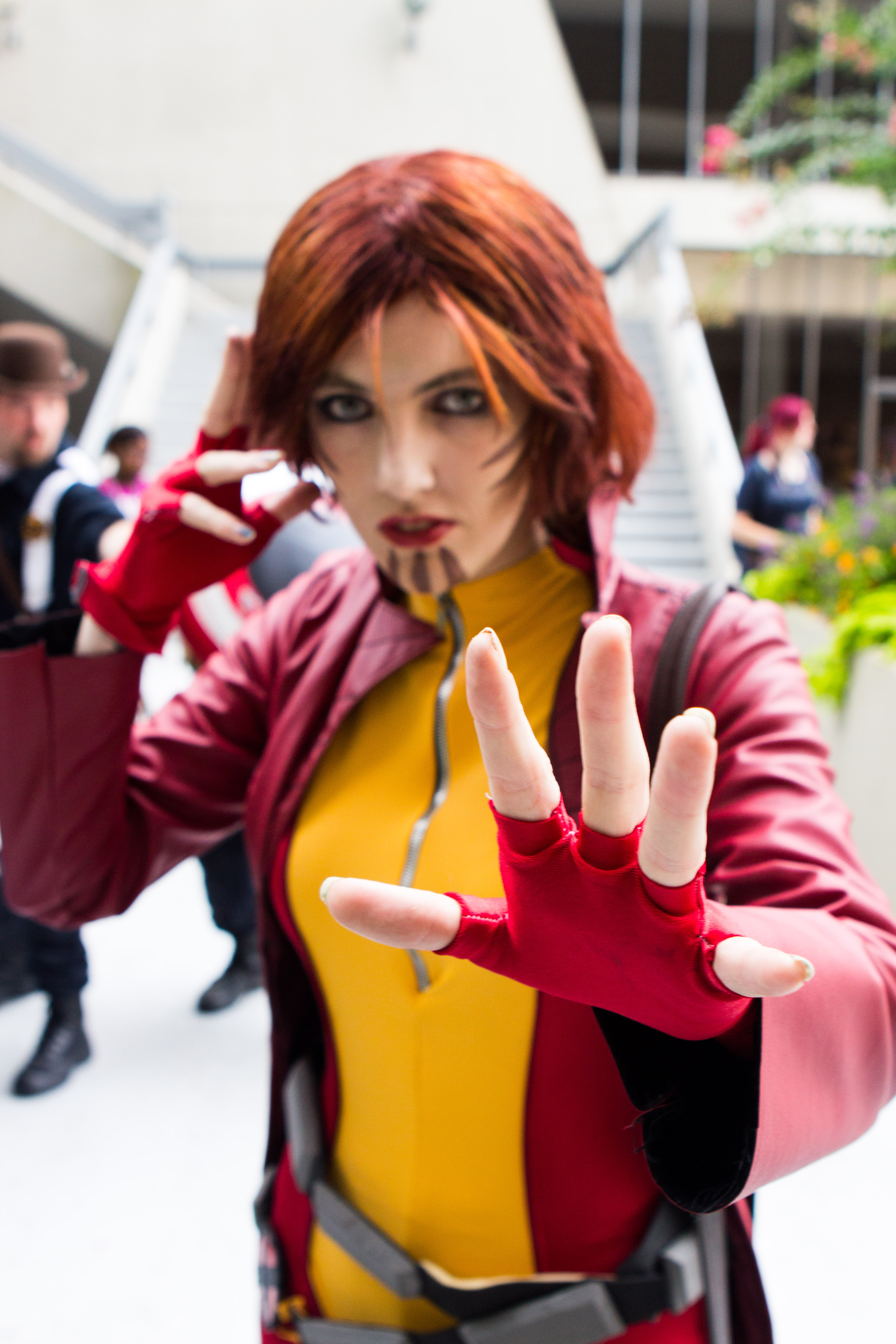 Cosplay of a Marvel Comics character, Rachel Summers. Dragon Con 2013